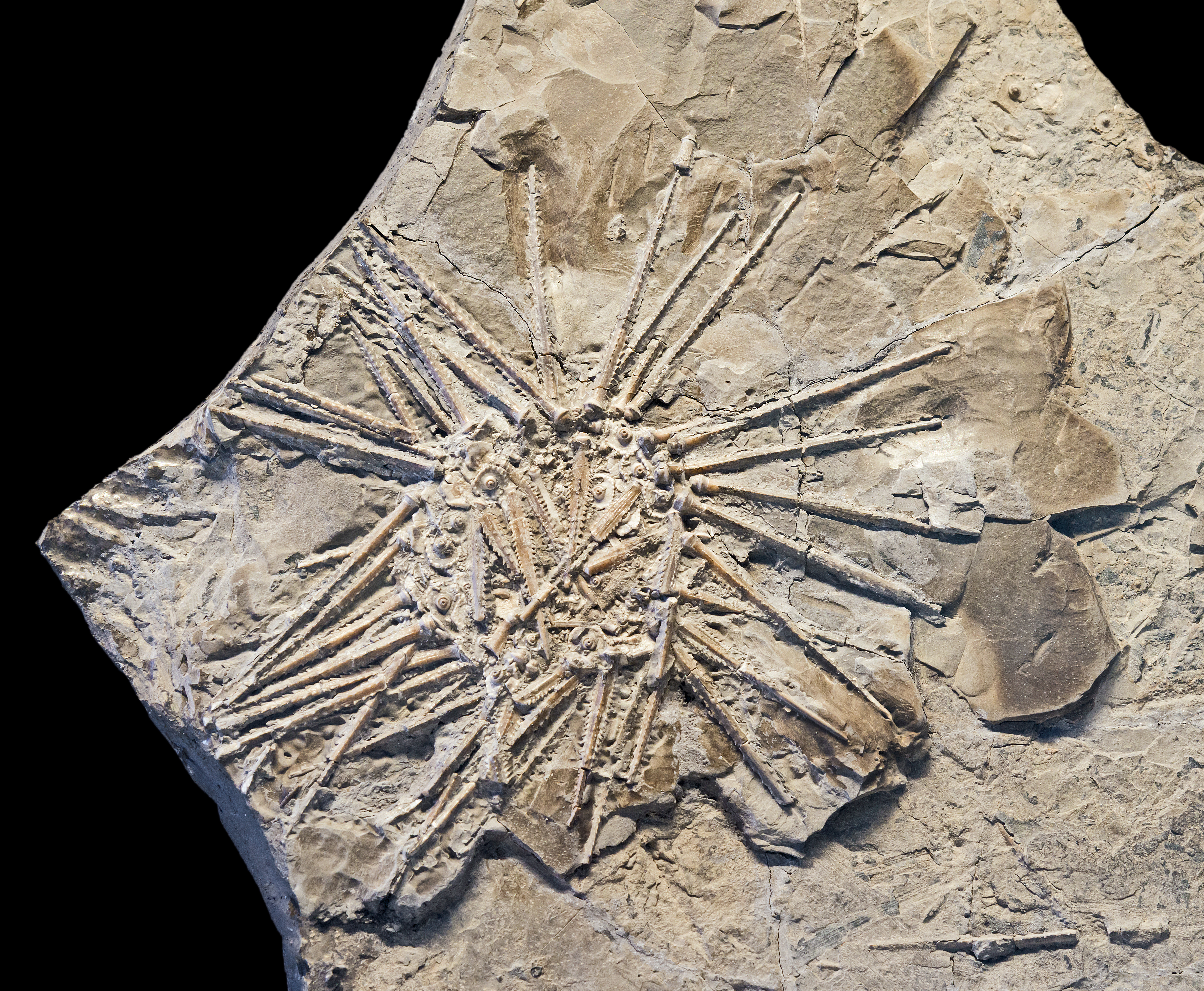 Archaeocidaris brownwoodensis Stage : Pennsylvanian 323.2 Ma and 298.9 Ma (million years ago). Size and weight : 37.5 x 24.5 x 3.4 cm / 2.660 Kg